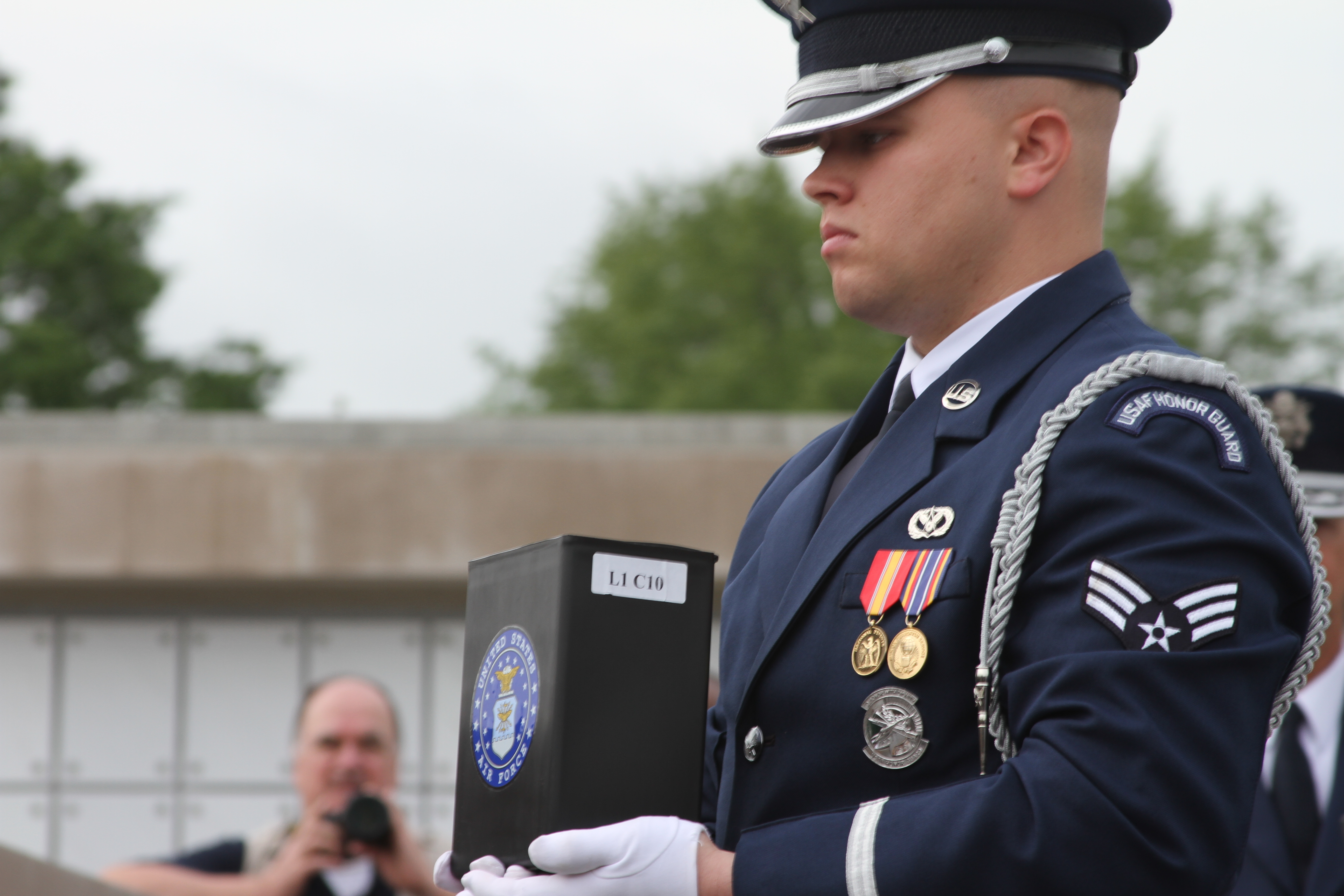 ARLINGTON, Va. – A U.S. Air Force honor guard member takes the remains of Staff Sgt. Dennis Banks, a Vietnam War veteran, to a niche at Arlington National Cemetery’s new Columbarium Court No. 9 May 9, 2013 . The cemetery dedicated its ninth columbarium court by conducting a joint full honors committal service for six unclaimed remains of veterans from all branches of the Armed Forces. The Norfolk District, U.S. Army Corps of Engineers, oversaw the construction of the columbarium, which spans more than 2 acres. (U.S. Army photo/Kerry Solan)